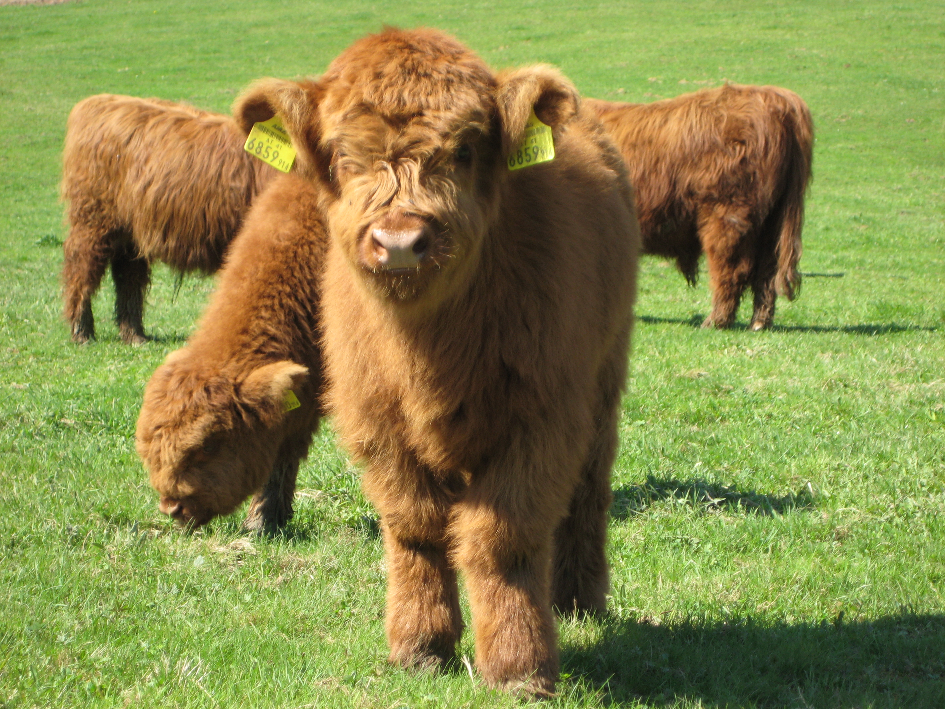 Highland cattle